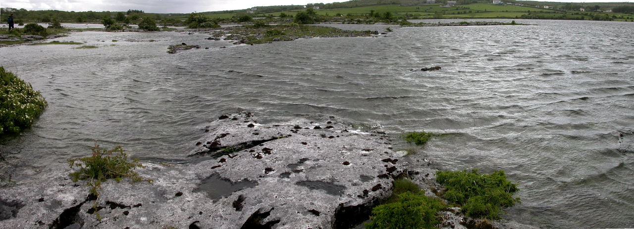 The turlough at Carran, County Clare, Ireland, photographed in late May 2005 after a spell of wet weather.Plantsurfer 22:08, 3 July 2007 (UTC)